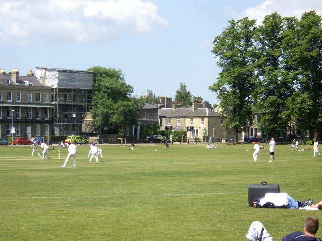 A cricket match on Parker's Piece On a fine warm day at the end of May.